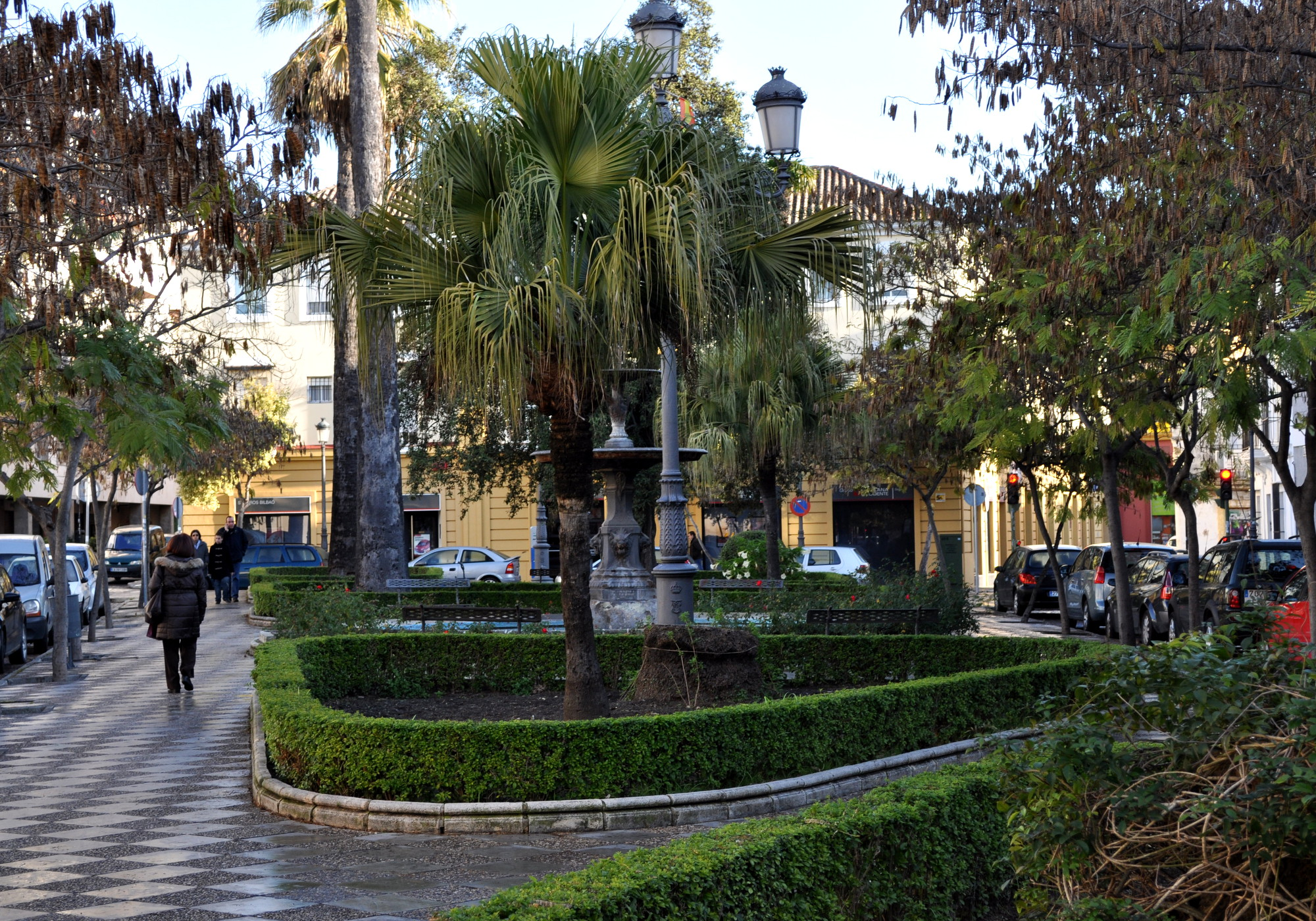 Aladro Square. Garden and fountain. Jerez